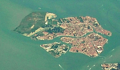 Aerial view of Murano in Venice.